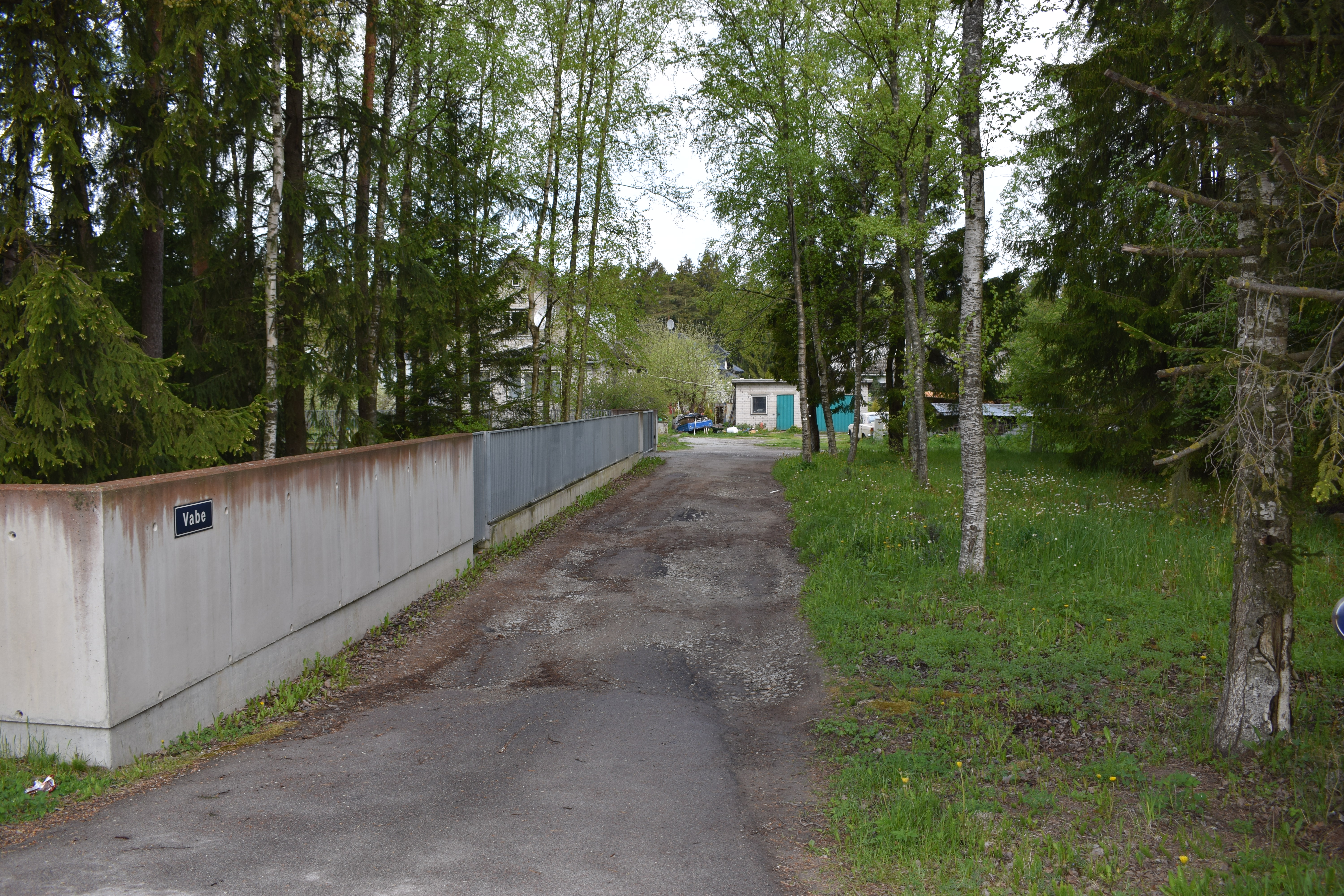 Tallinn